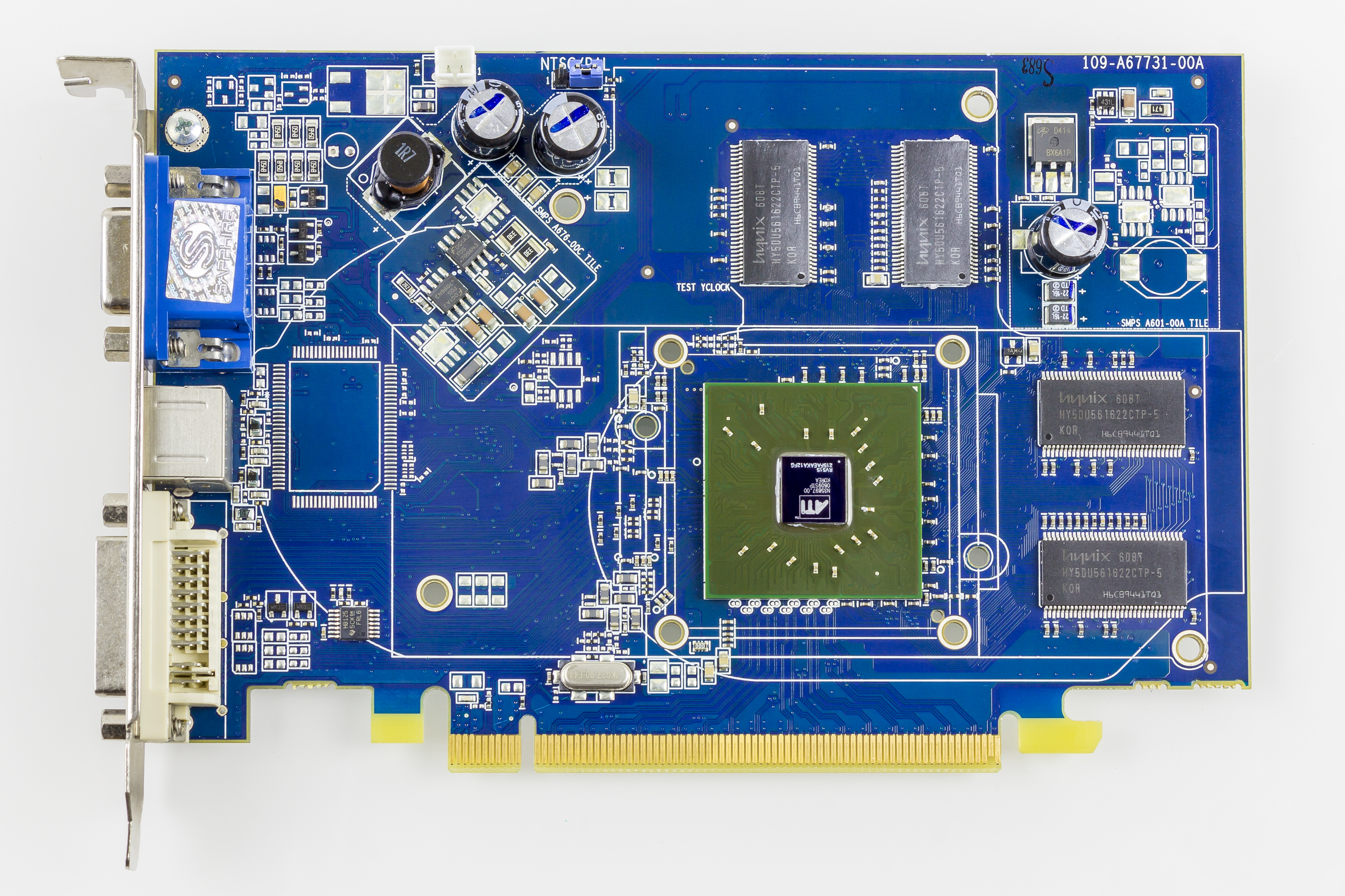 ATI Radeon X1300 256MB. Heatsink removed